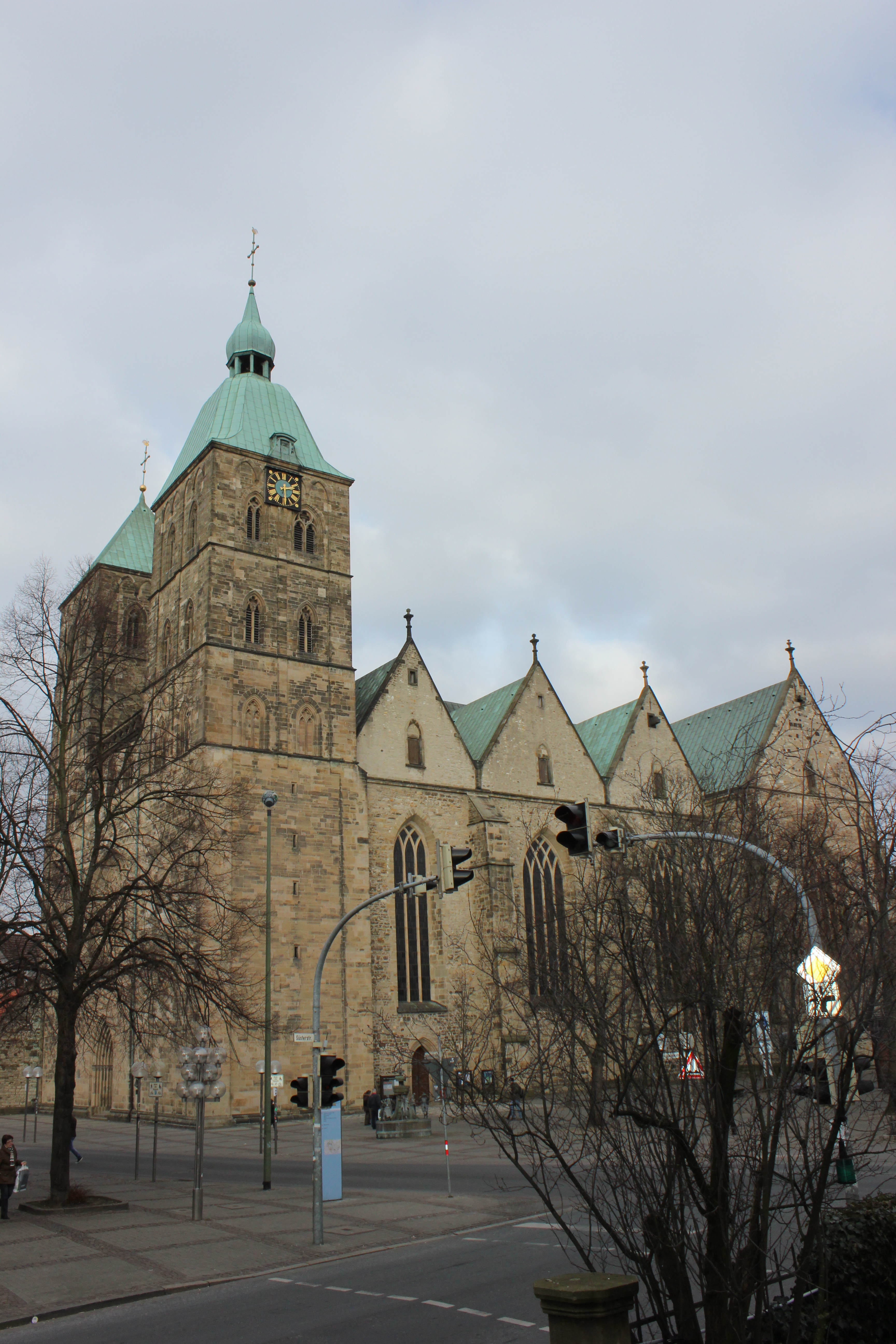 St.Johann, Osnabrück 2012